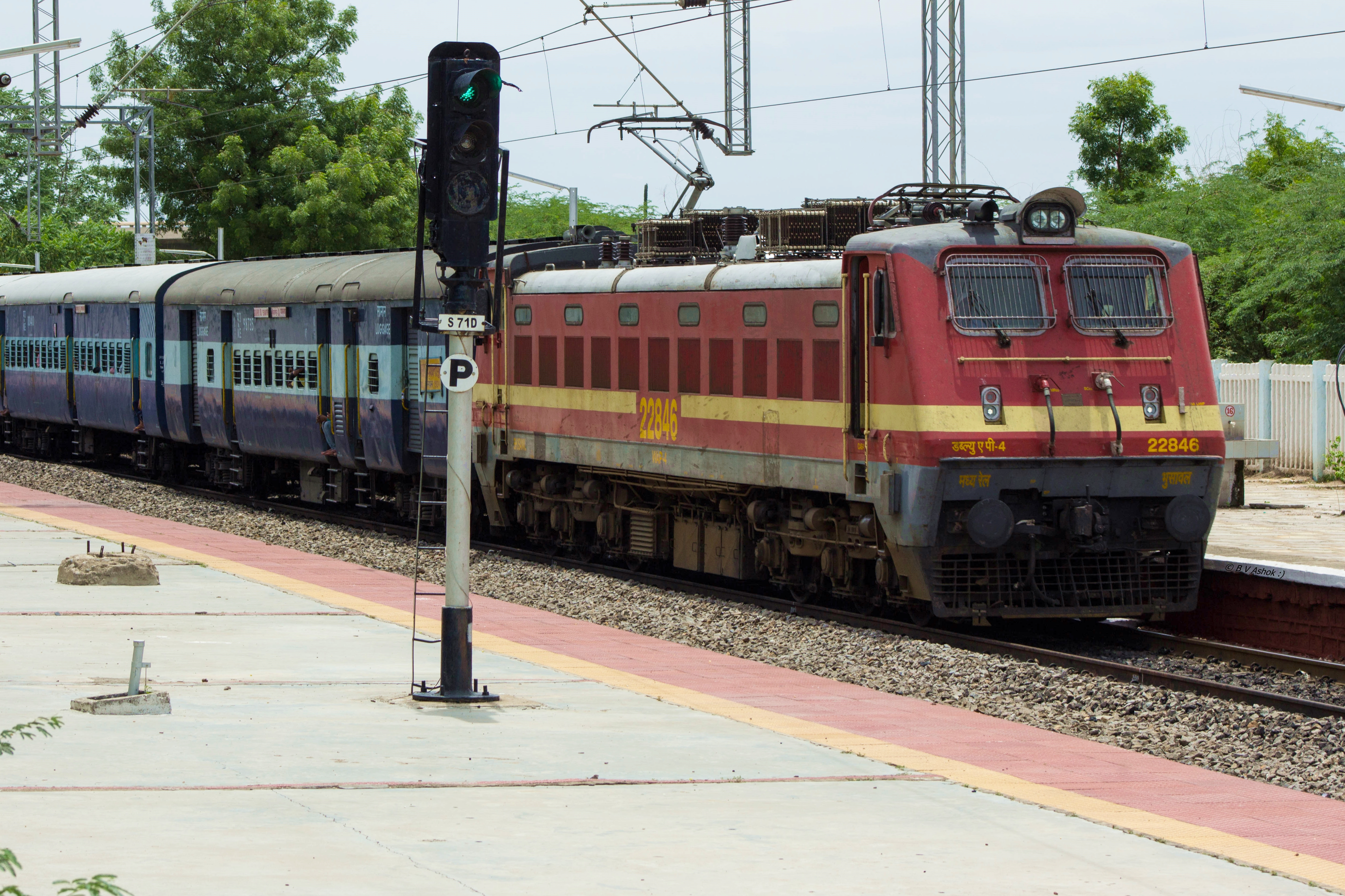 BSL WAP-4 22846 cruising through Raigir with 15024 Yeshavantapur - Gorakhpur Express...